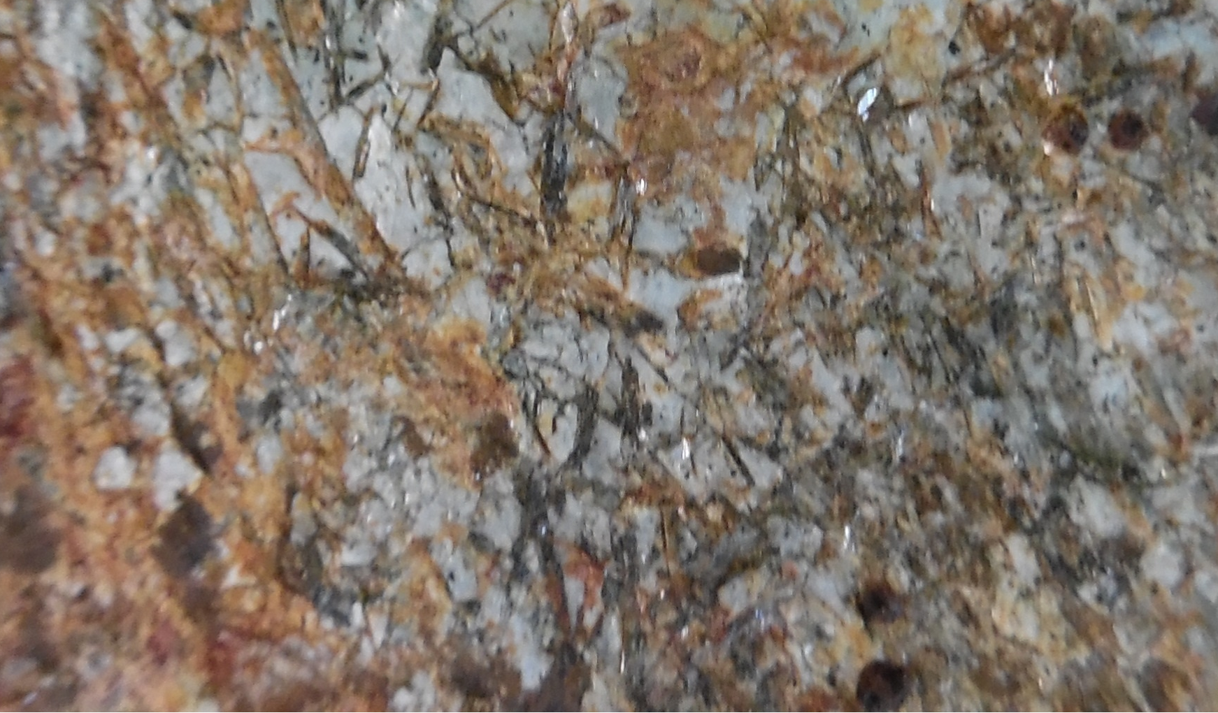 Mica schist from Pensol, Haute-Vienne, France. The close-up shows milky sericite, staurolite needles and little red garnet crystals (almandine).